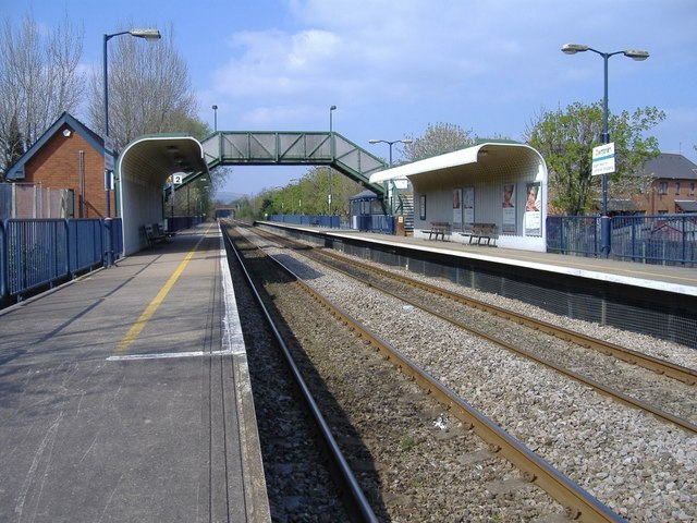 Railway station, Cwmbran